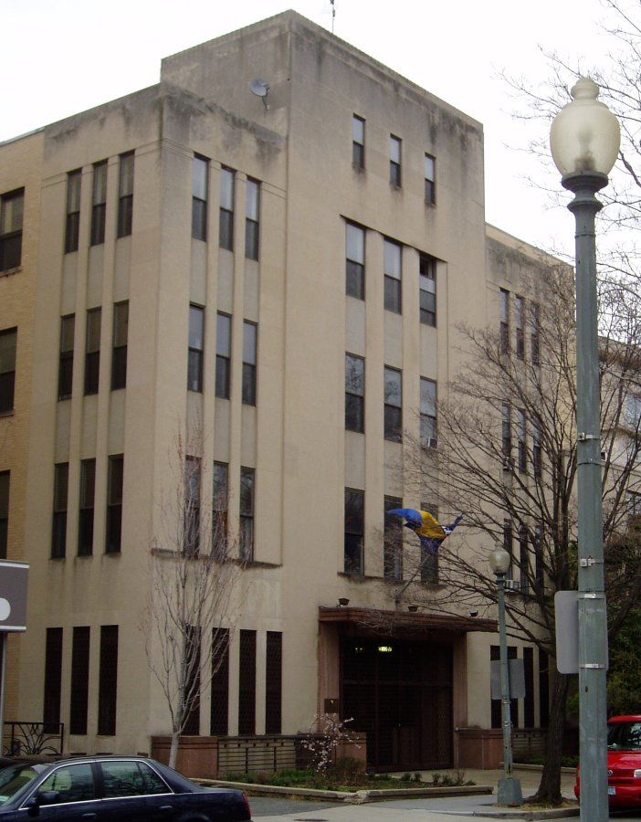 Embassy of Bosnia and Herzegovina, Washington, D.C.